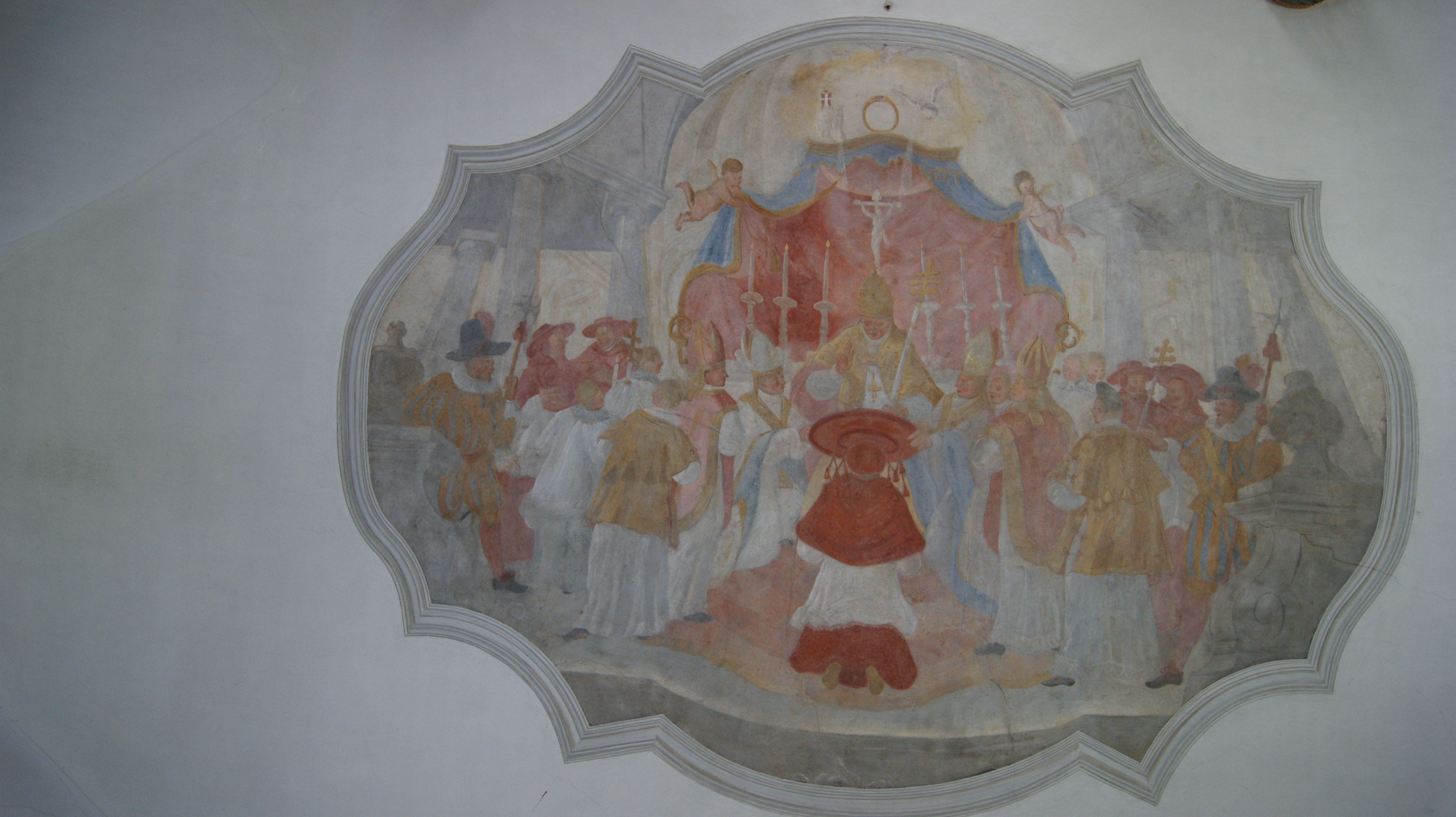 Chapel St Karl-Borromäus in Hohenems, Vorarlberg, Austria. Ceiling fresco.